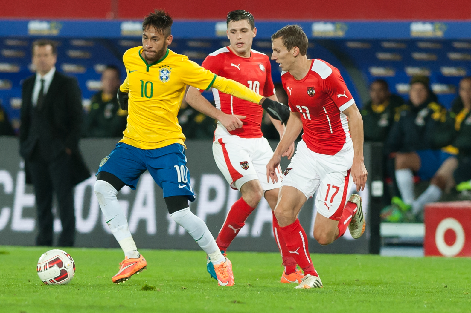 International Friendly Austria - Brazil November 18, 2014: Neymar Jr